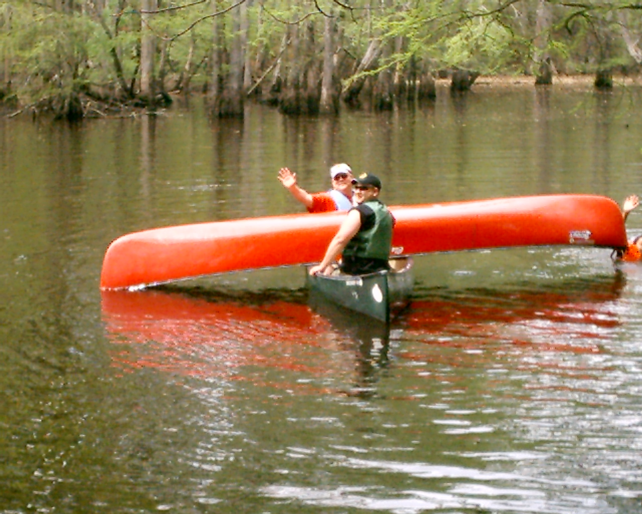 Boy Scout leaders and Scouts (in the water) practicing a canoe T-rescue in the Blackwater River, Virginia.